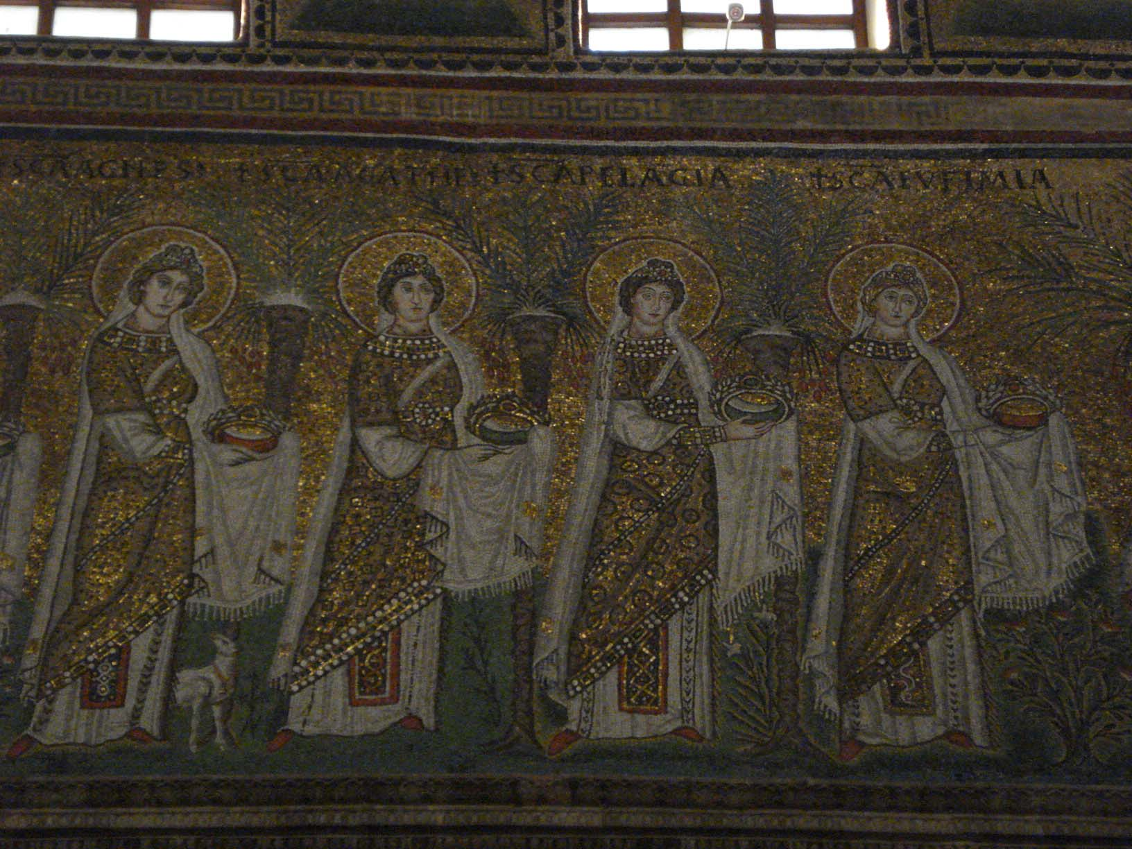 Basilica of Sant'Apollinare Nuovo in Ravenna, Italy: "Procession of the Holy Virgins and Martyrs". Mosaic of a Ravennate italian-byzantine workshop, completed within 526 AD by the so-called "Master of Sant'Apollinare".